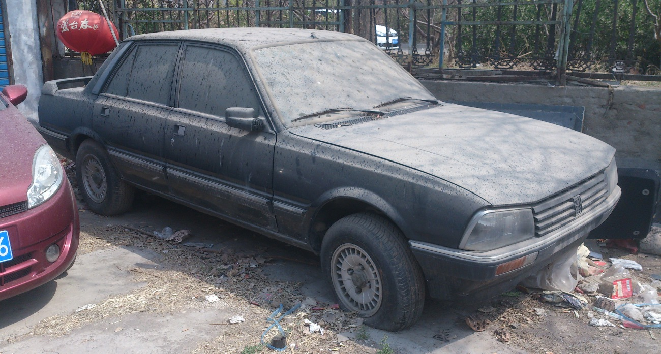 Peugeot 505 photographed in Tianjin, China.